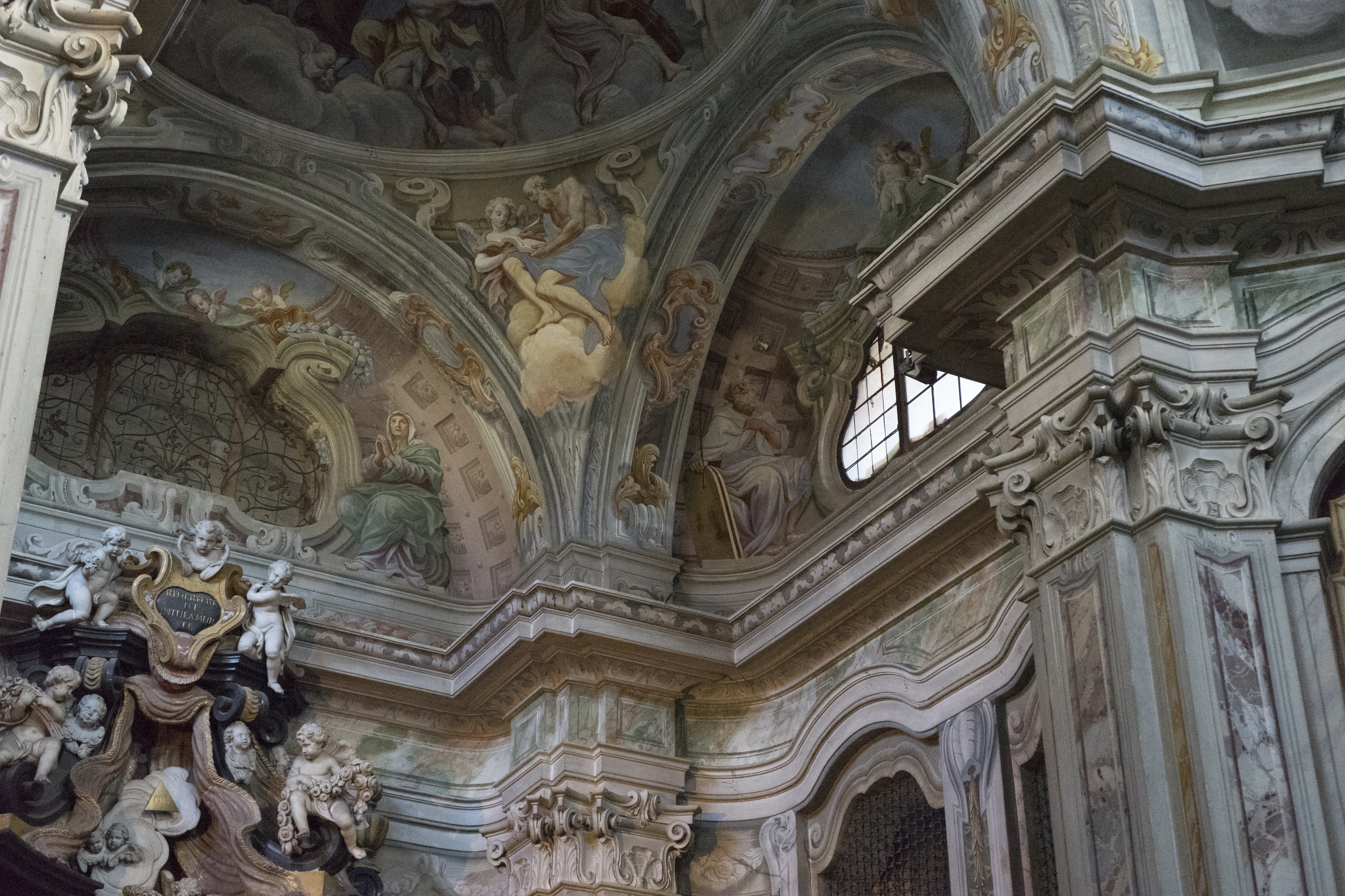 This is a photo of a monument which is part of cultural heritage of Italy.